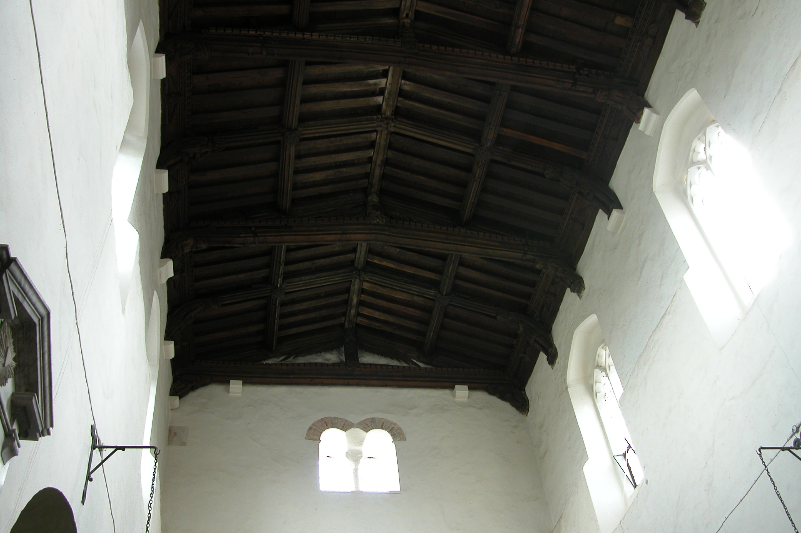 All Saints Church Wing, Buckinghamshire, England - Anglo Saxon Church